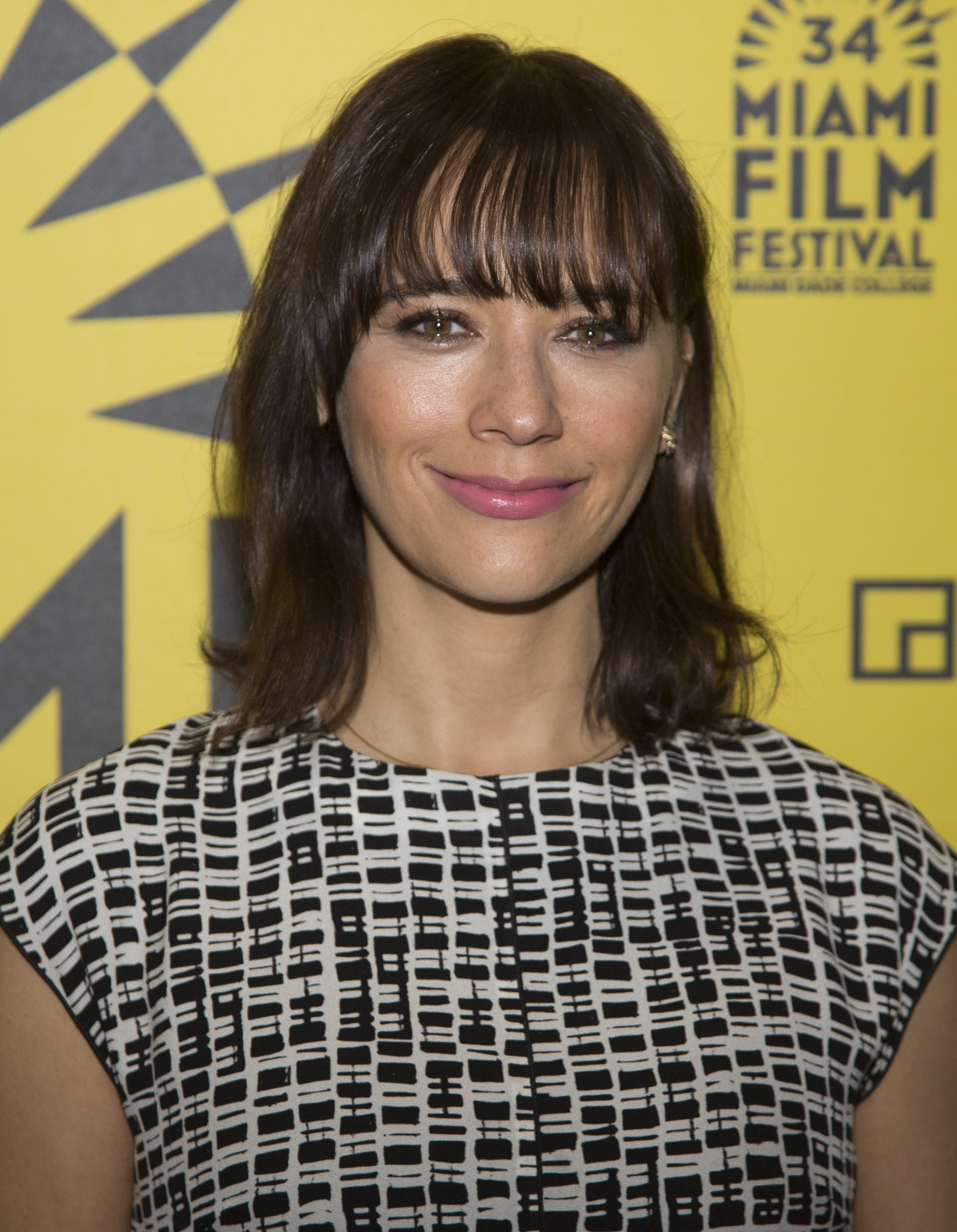 Rashida Jones at the 2017 Miami International Film Festival presentation of Hot Girls Wanted: Turned On at Regal Theater on March 7, 2017